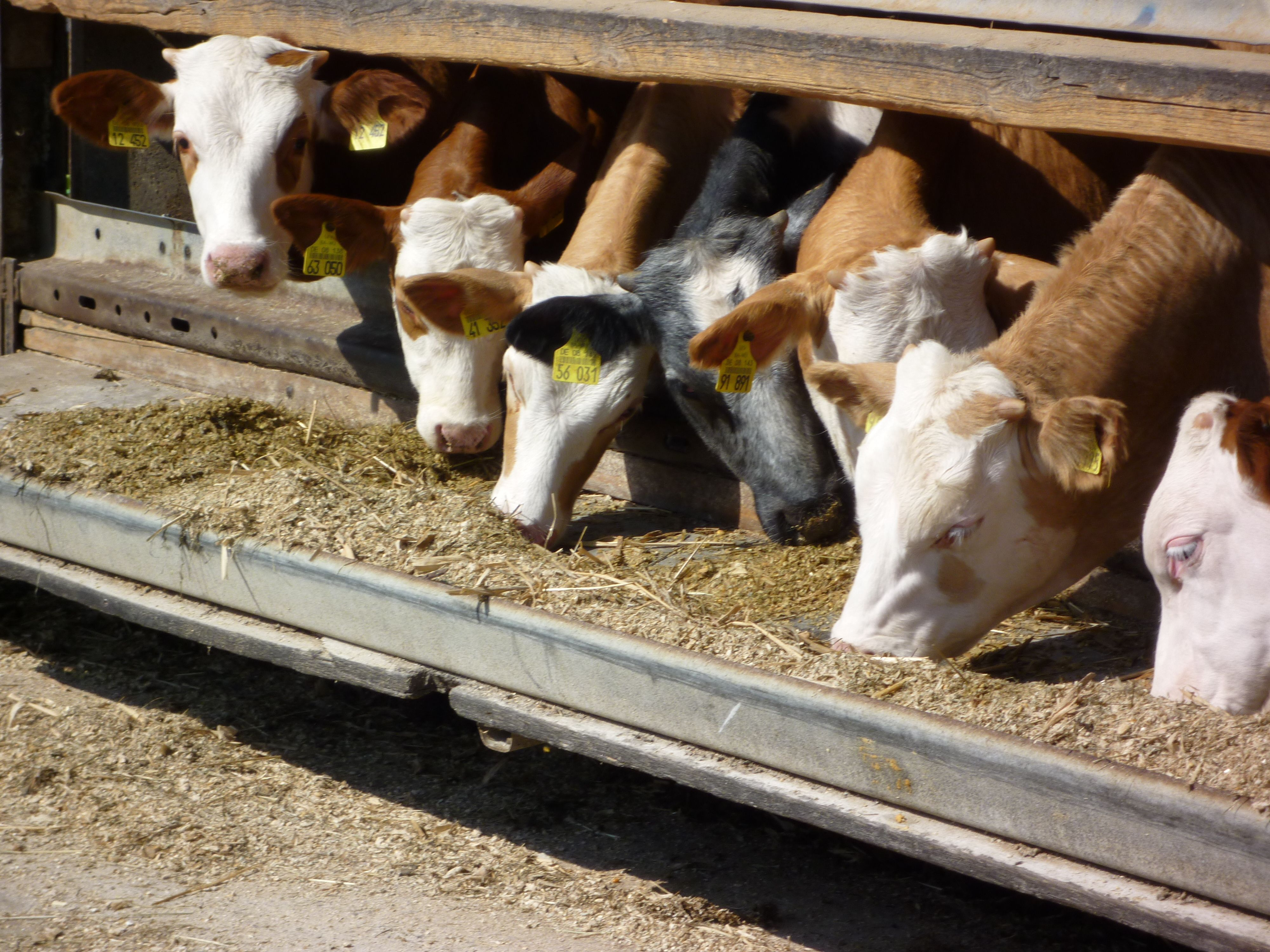 Winterstettenstadt - Barncattle at feeding